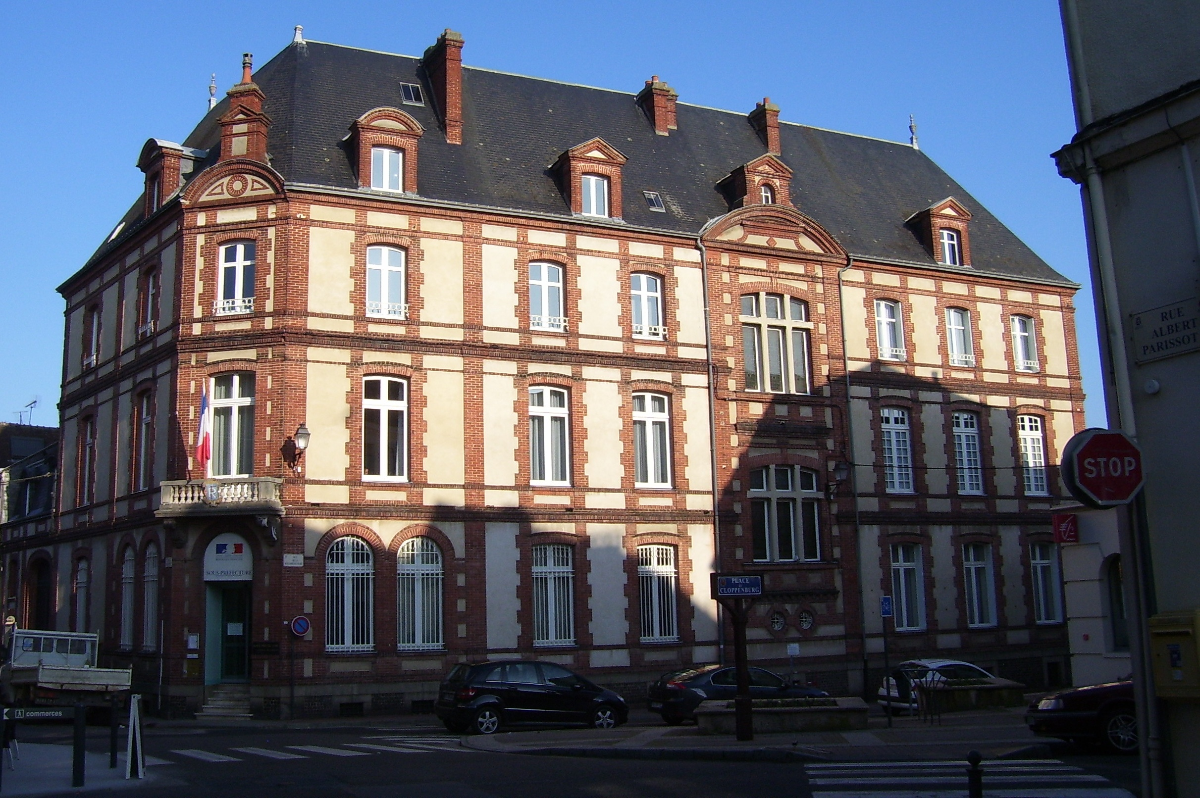 Subprefecture in Bernay (Eure, France).